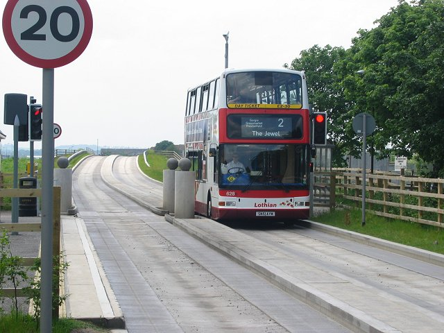 An eastbound bus calls at Saughton East Halt on the West Edinburgh Busway. This is the last stop on the eastbound section, when it leaves it will shortly rejoin traffic on Stenhouse Drive. To the rear in the distance is where the busway bridges Saughton Road. The bus is Lothian Buses bus 628G (reg. SN51 AYM), operating route 2 to The Jewel (the G suffix on the fleetnumber denotes guidewheel fitted buses, which are needed to run on the busway, although they are not visible in this image).